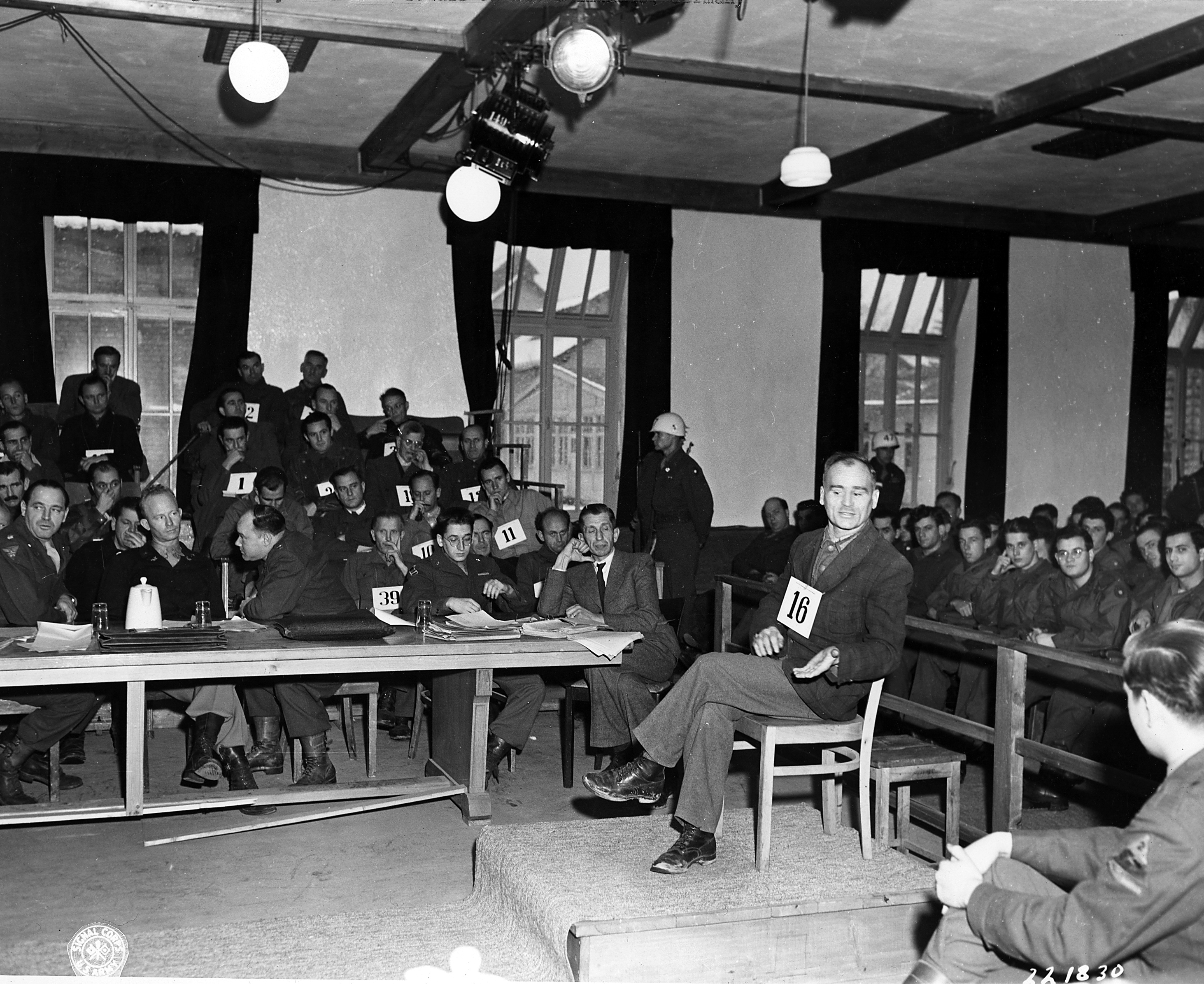 Defendant Christof Ludwig Knoll, a former political prisoner and block leader, testifies at the trial of former camp personnel and prisoners from Concentration Camp Dachau.